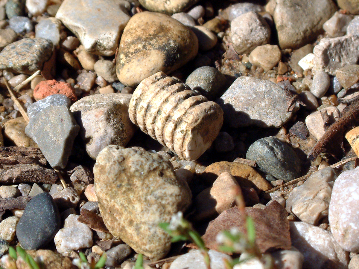 A fossilized crinoid stem segment, or "Indian bead", in the gravel of a driveway in Warren County, Indiana. Fossil is approximately 12mm in length and 8mm in diameter.